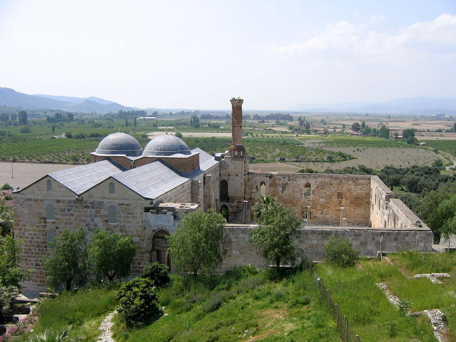 Isa Bey Mosque in Ayasoluk, in between the Basilica of St. John and the Temple of Artemis, built in 1375.